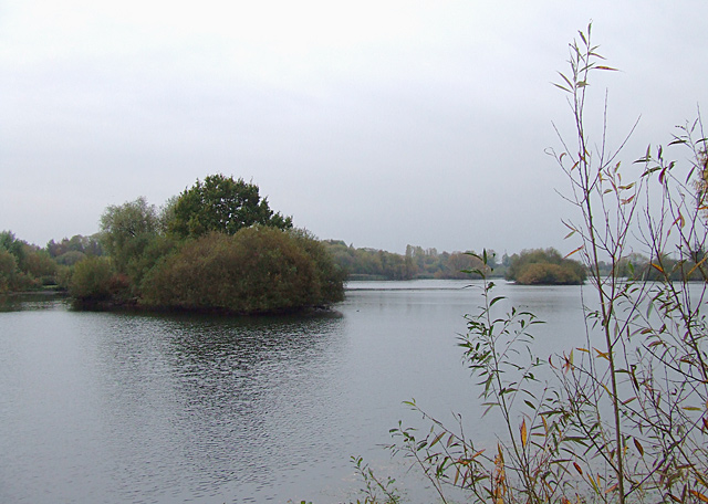 Branston Water Park, Staffordshire Taken on a dull, damp autumn afternoon. Several flooded former gravel pits are now used as a very attractive leisure facility and nature reserve. Not many people were about today!